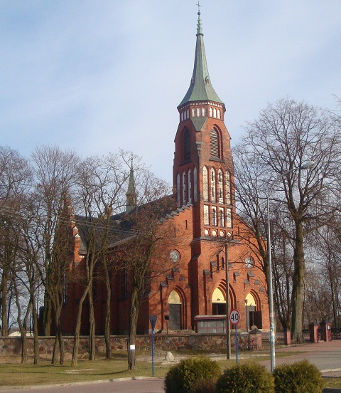 St. Anna Catholic Church in Jakobow